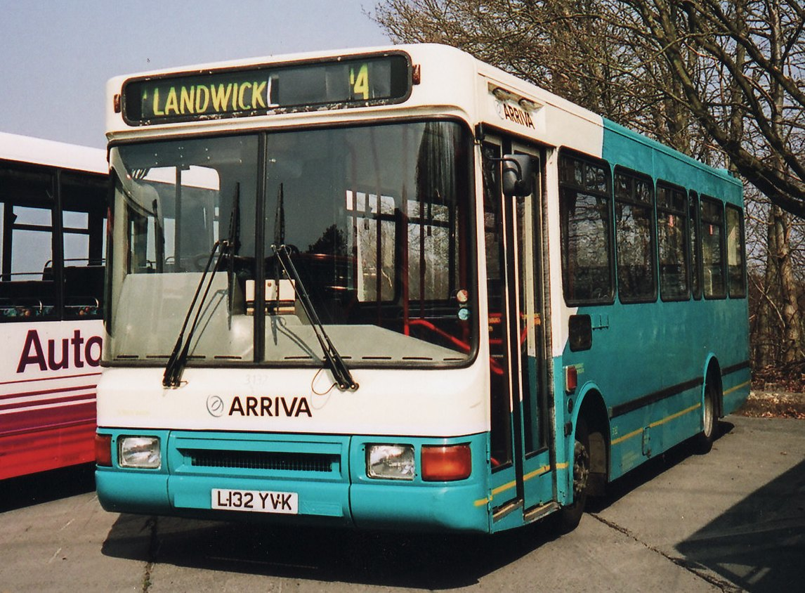 Arriva Southend 3132 (L132 YVK), a Dennis Dart/Northern Counties Paladin, seen at Longcross Test Track at the 2007 Cobham bus museum Spring Gathering rally, 1 April 2007.